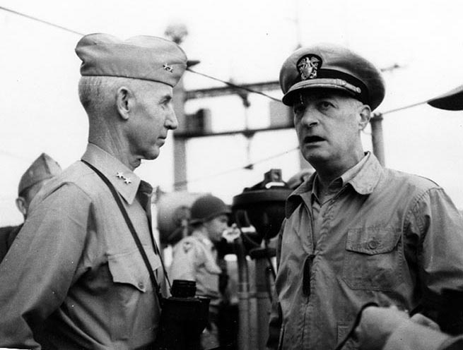 Major General Oliver P. Smith, USMC, Commanding General, First Marine Division, (left) and Rear Admiral James H. Doyle, USN, Commander, Task Force 90 confer on board USS Mount McKinley (AGC-7), in mid-September 1950, immediately prior to the Inchon Invasion. Official U.S. Navy Photograph, now in the collections of the National Archives. Description: Photo #80-G-423190 Major General Oliver P. Smith, USMC, Commanding General, First Marine Division, (left) and Rear Admiral James H. Doyle, USN, Commacnder, Task Force 90 confer on board USS Mount McKinley (AGC-7), in mid-September 1950, immediately prior to the Inchon Invasion.